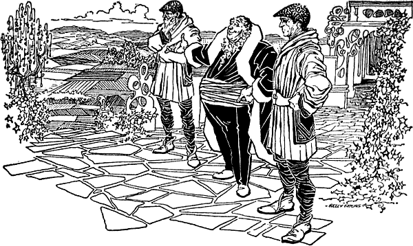 Frontispiece of "Disqualified", Charles Louis Fontenay's 1954 short fiction.